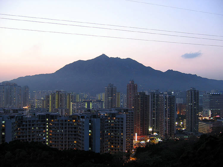 Night view of Tuen Mun, Hong Kong.